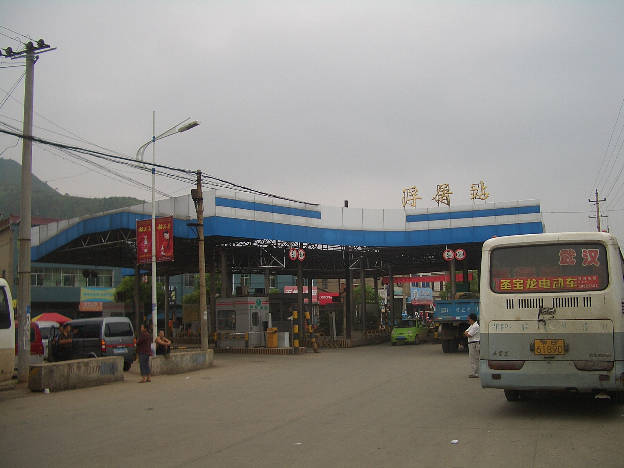 A toll plaza on G106/G316 in the center of Futu! (Yangxin County, Hubei).